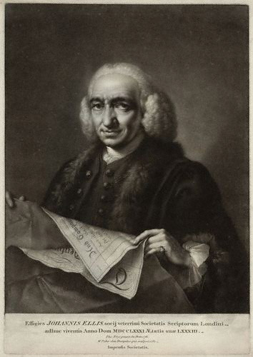 Portrait of John Ellis (1698-1790), English scrivener and literary figure.